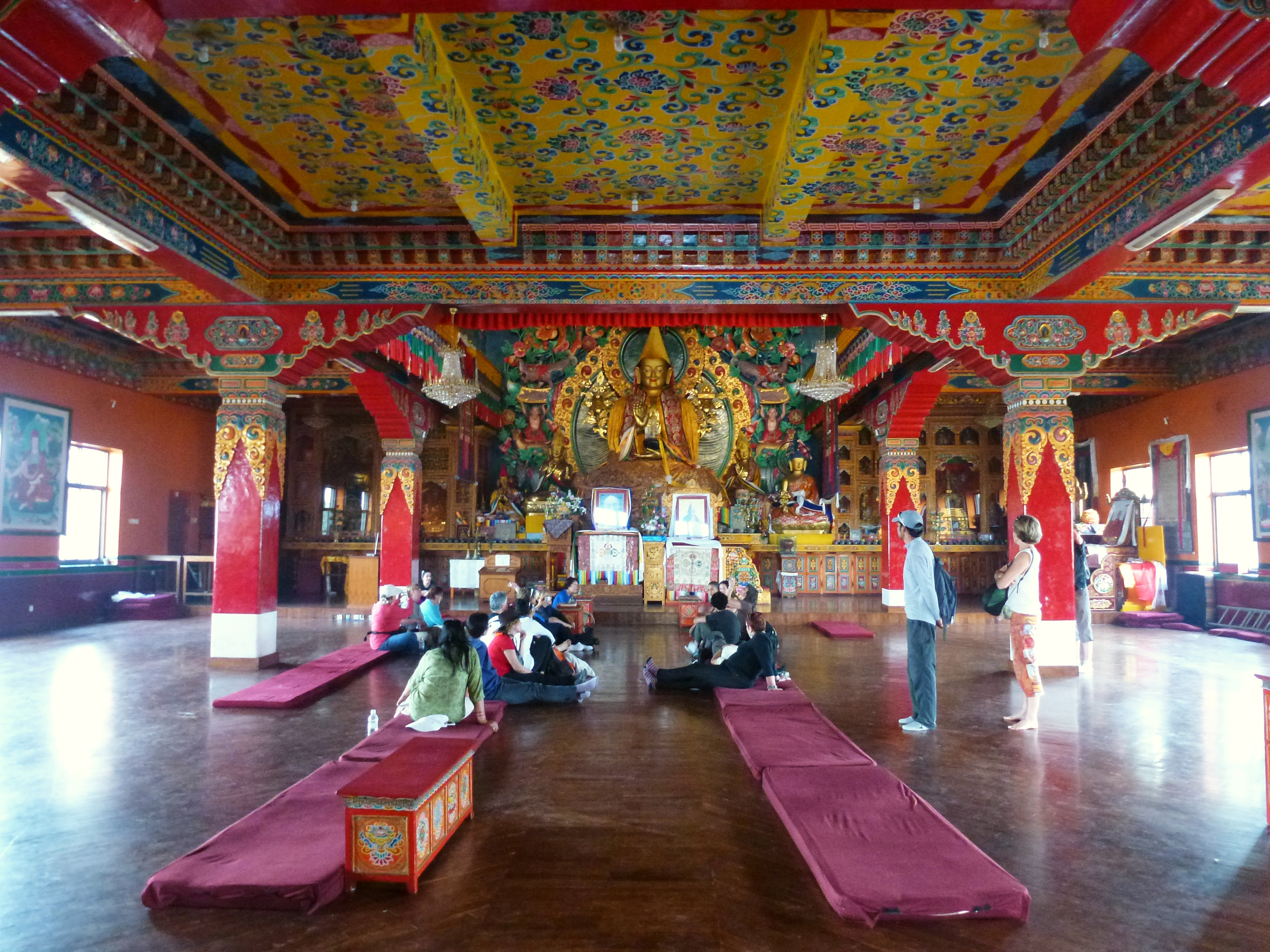 Main Gompa. Kopan Monastery.